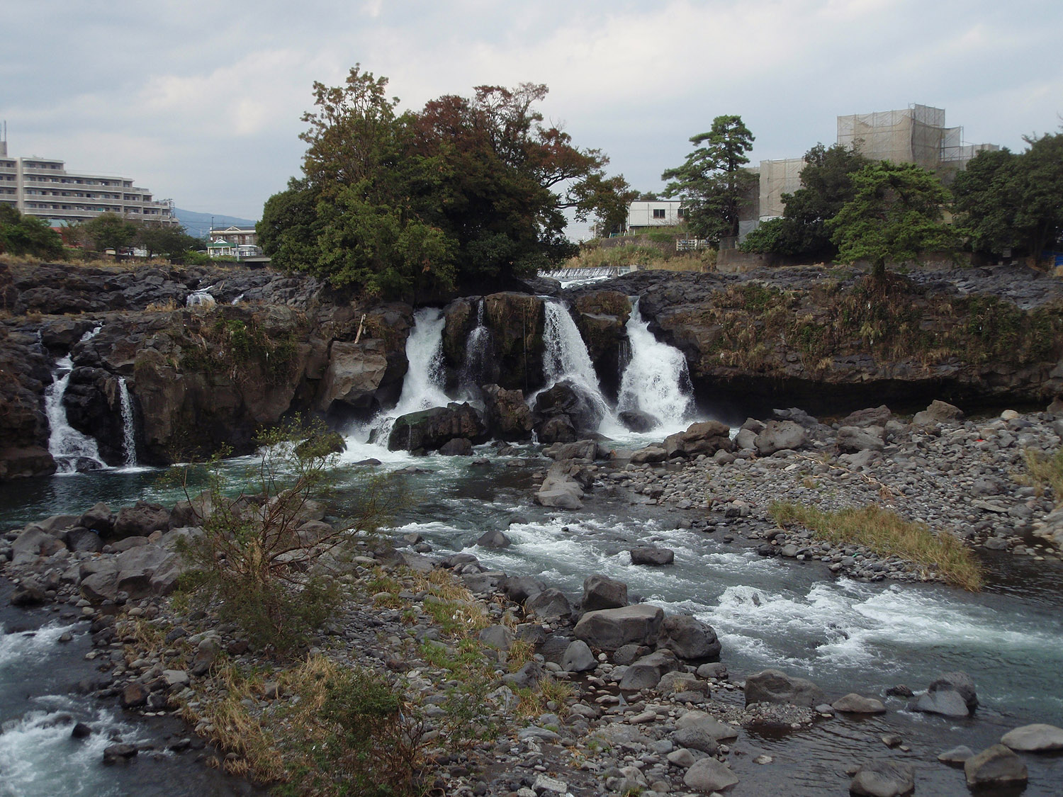 Ayutsubo Falls (Ayutsubo-no-taki) in Nagaizumi, Shizuoka Prefecture, Japan.